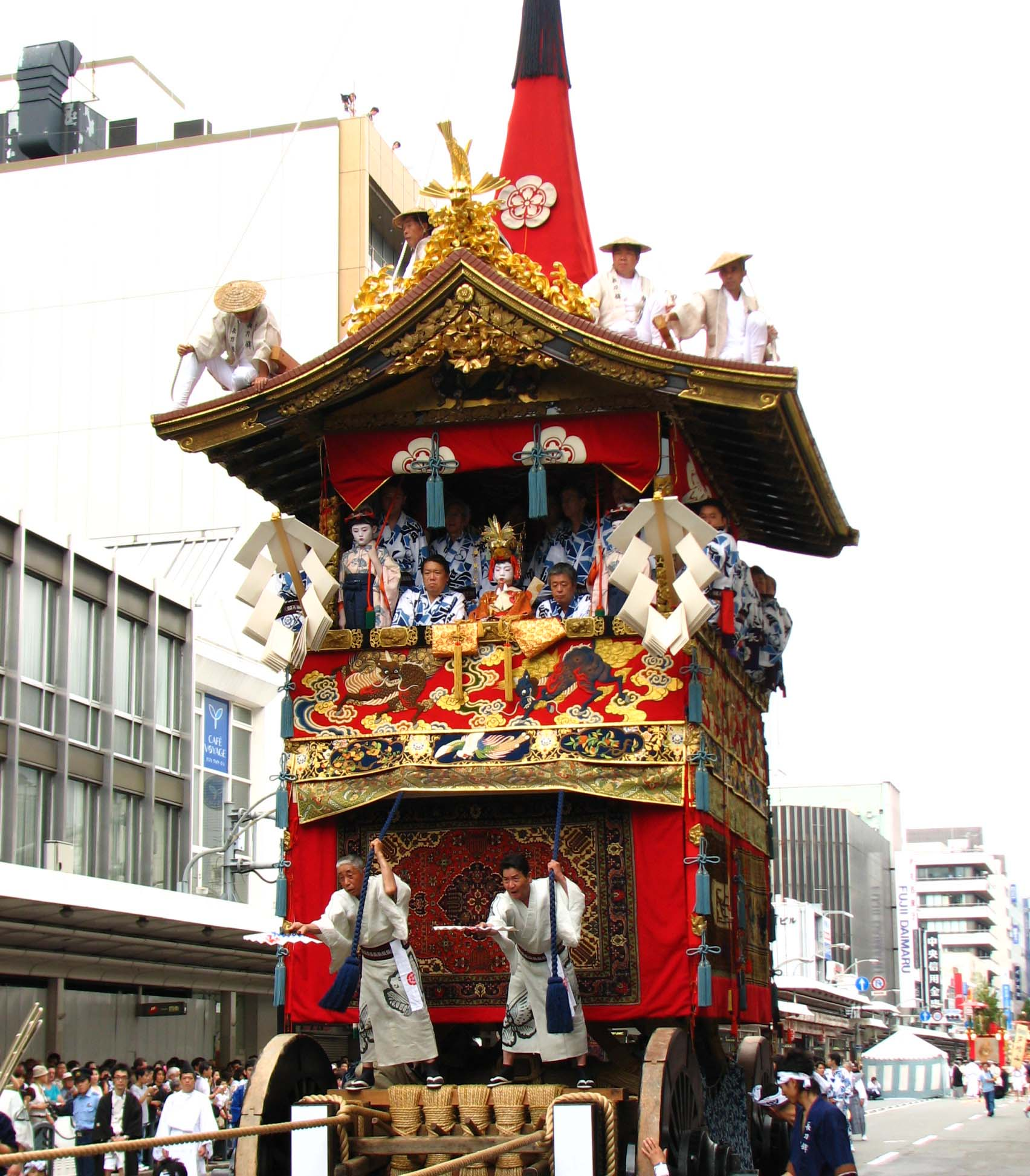 description:Naginata Hoko float carrying chigo Junzaburo Oka, son of a well known Kyoto family. He is adorned with golden phoenix. photographer: Chris Gladis photographer location:Kyoto, Japan flickr_url: [1]